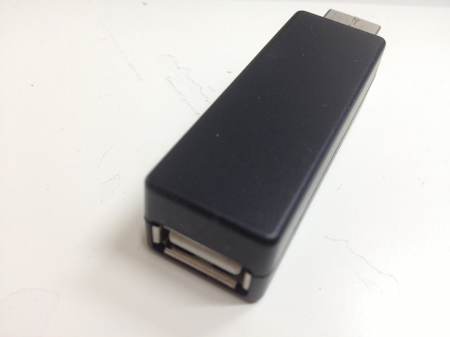 Hardware keylogger from a Chinese manufacturer